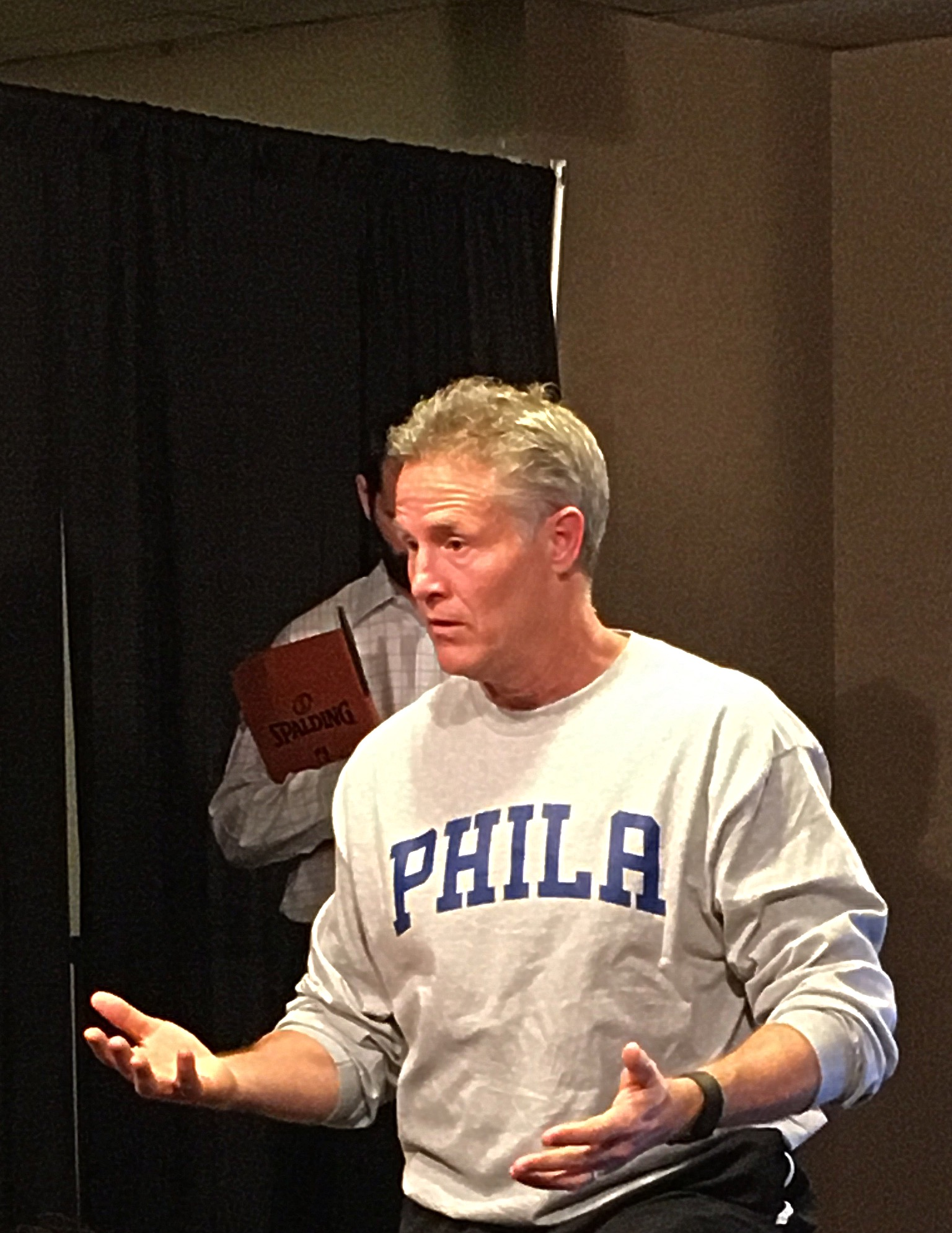 Brett Brown Speaking